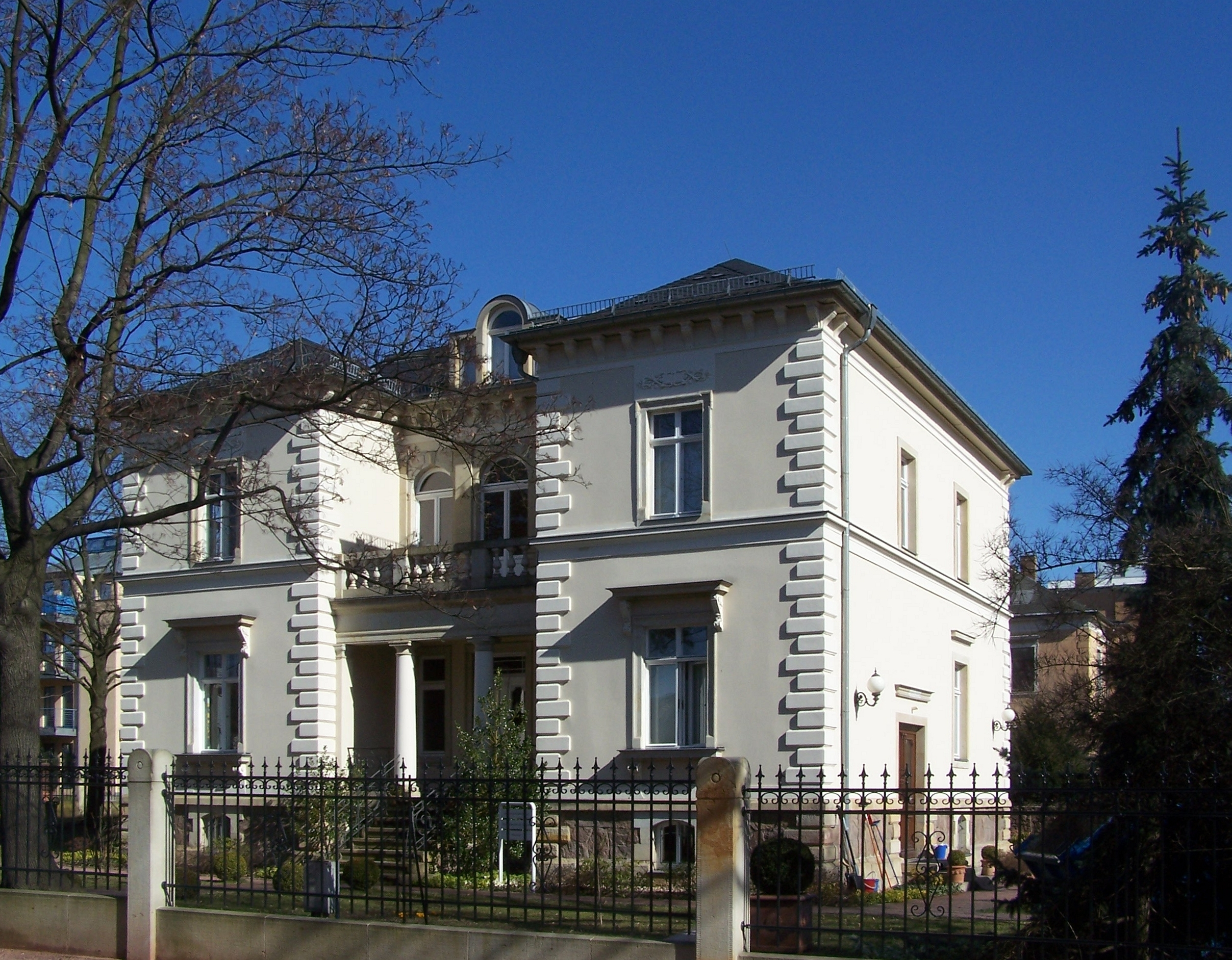 Dr.-Schmincke-Allee 8 in Radebeul